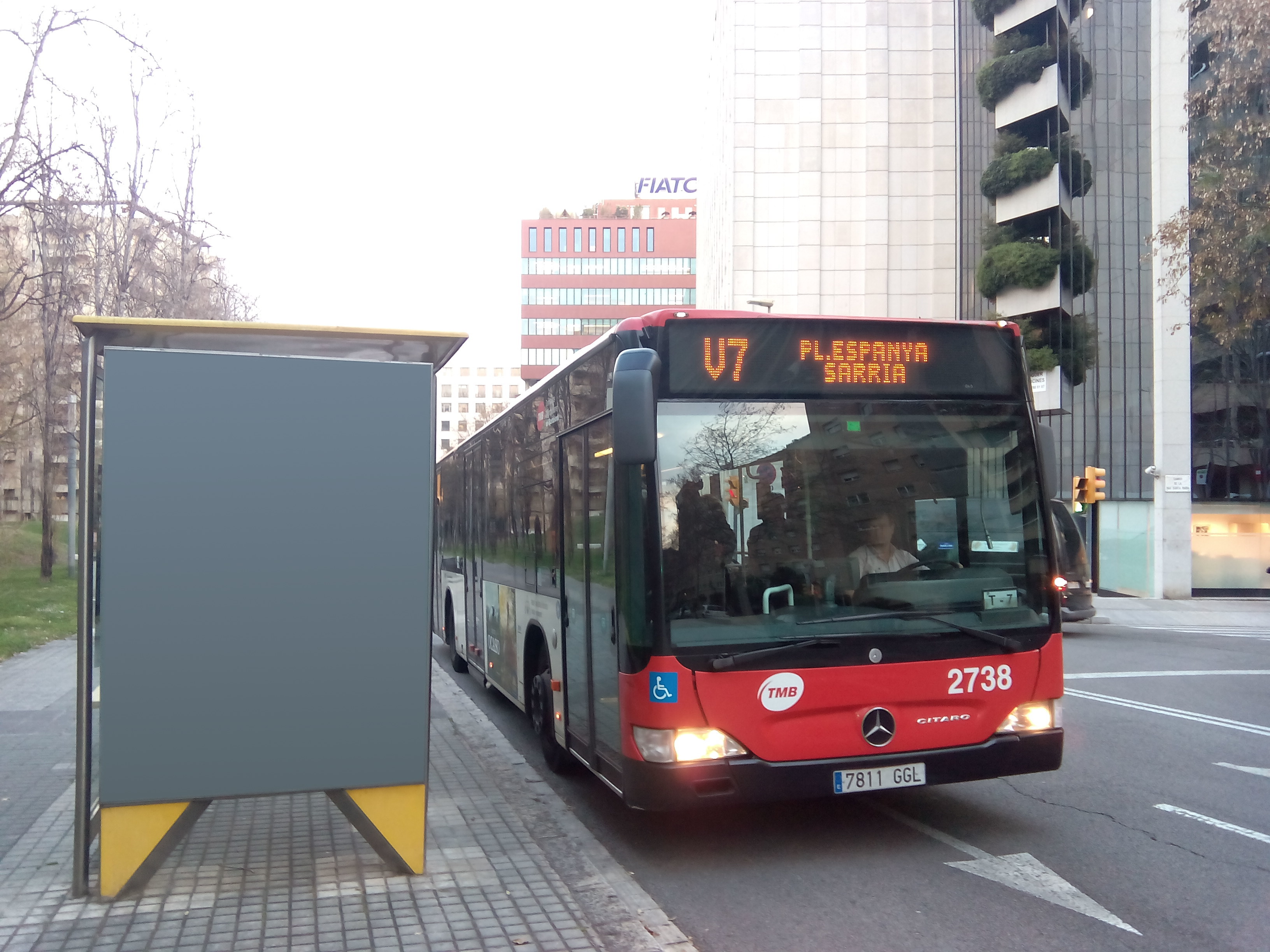 Barcelona Line V7 bus in Sarrià Avenue (exiting 3628- Av. Sarrià stop)